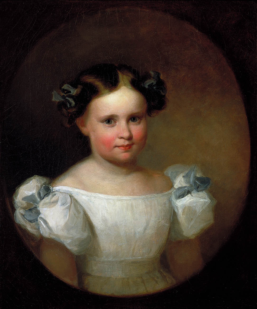 Georgianna Frances Adams